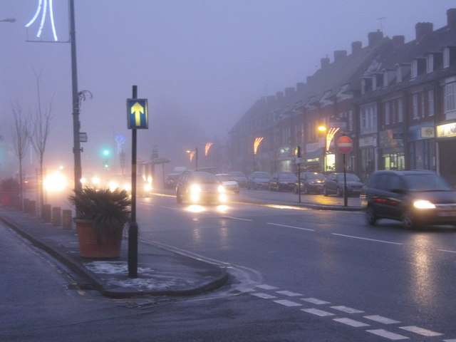 Foggy Wylde Green View from top of Holifast Road looking towards Birmingham on Birmingham Road. Foggy Christmas Eve afternoon.